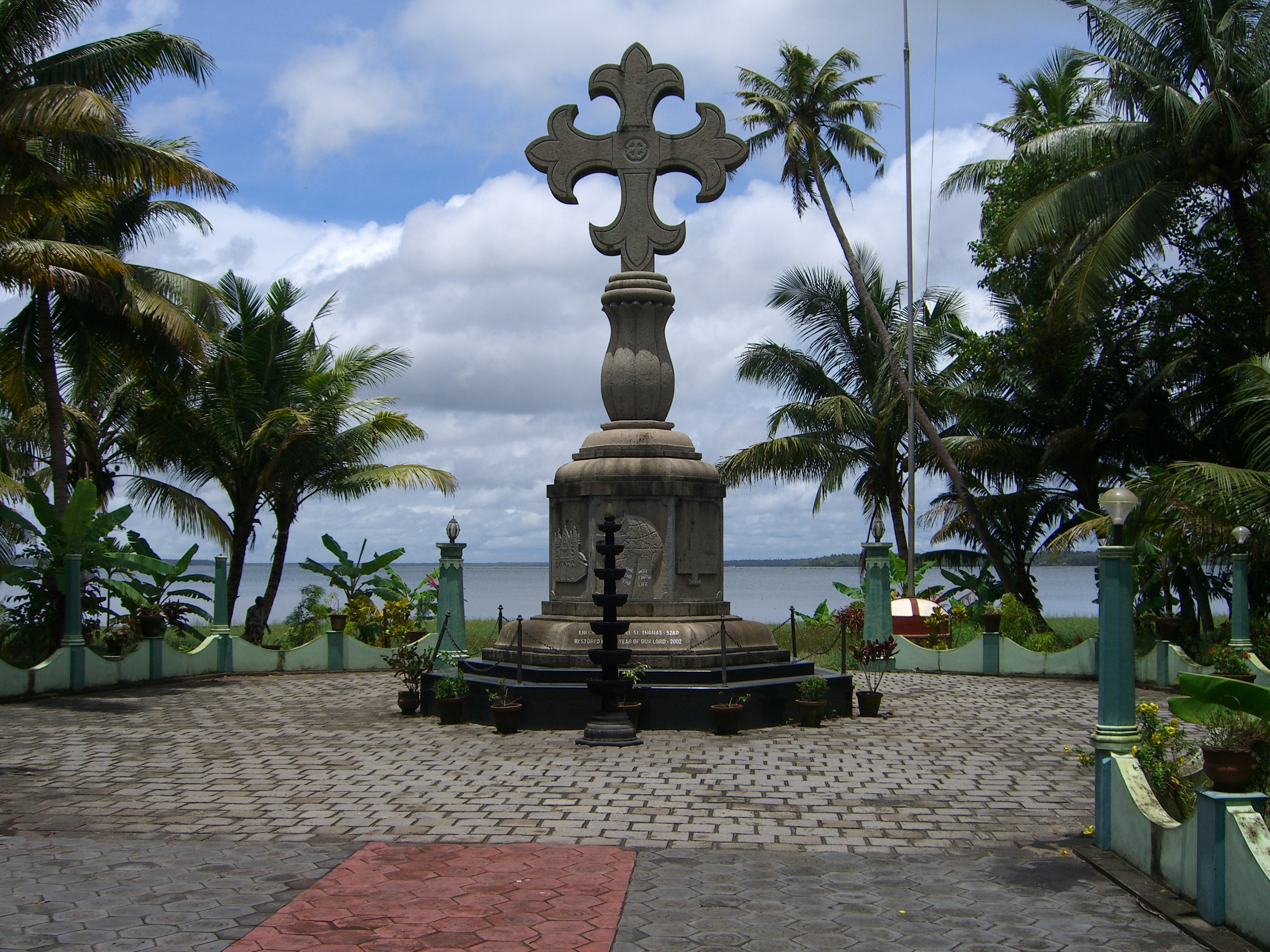 One of the Crosses which Apostle Thomas is believed to have erected in Kerala.